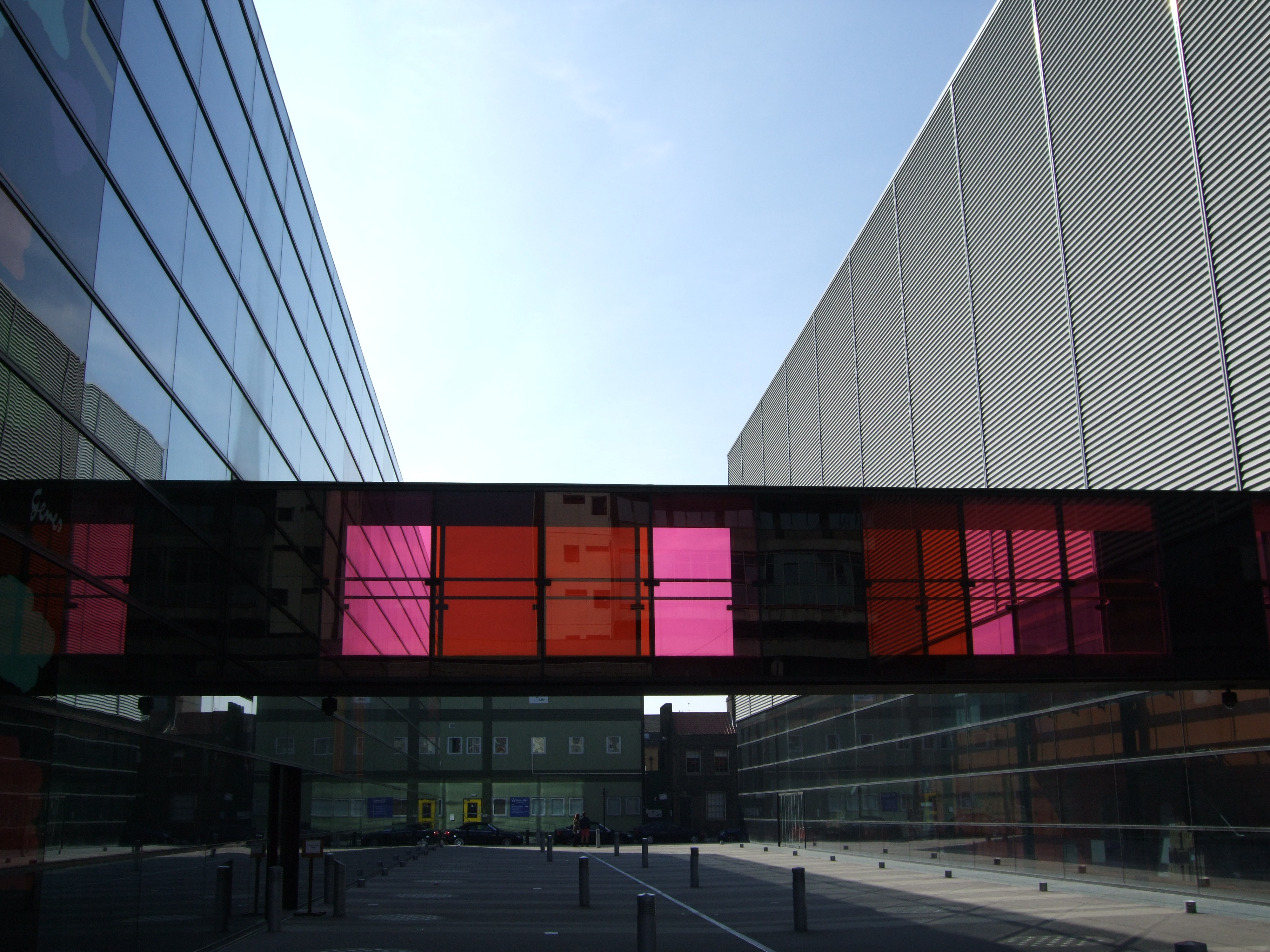 Queen Mary College, Institute of Cell & Molecular Science